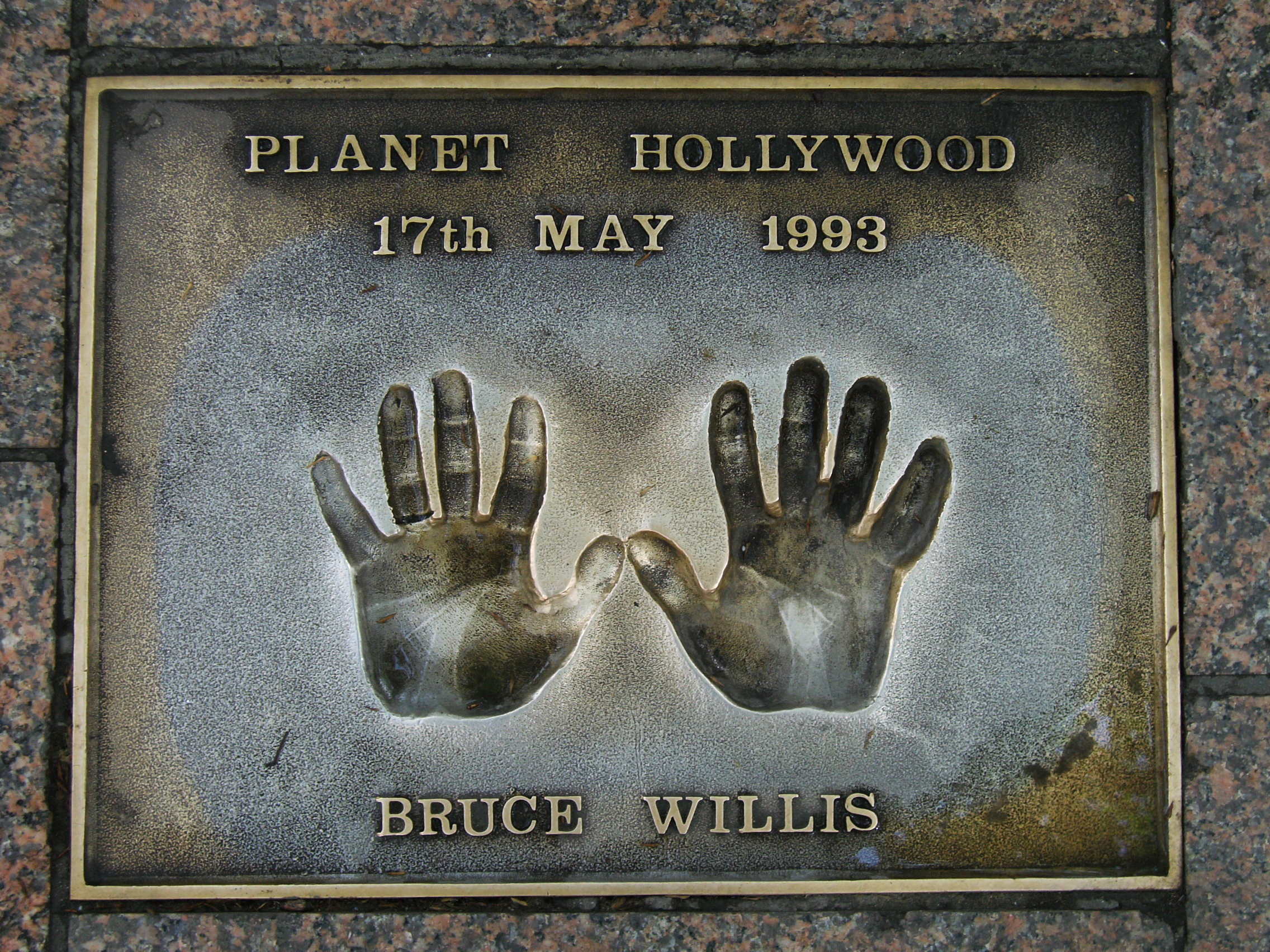 Bruce Willis' hand prints, in Leicester Square, London.